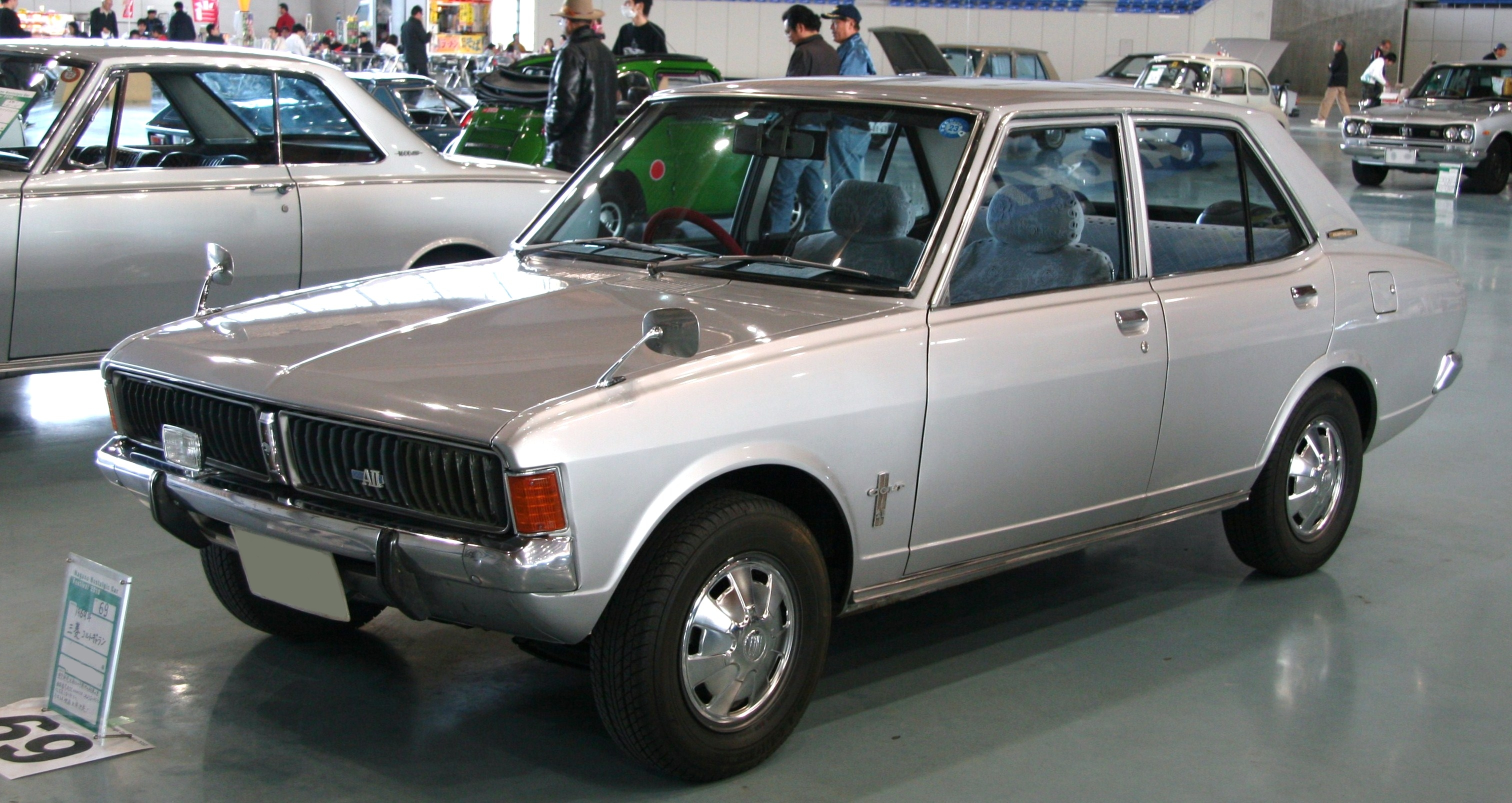 1969 Mitsubishi Colt Galant A II Custom L